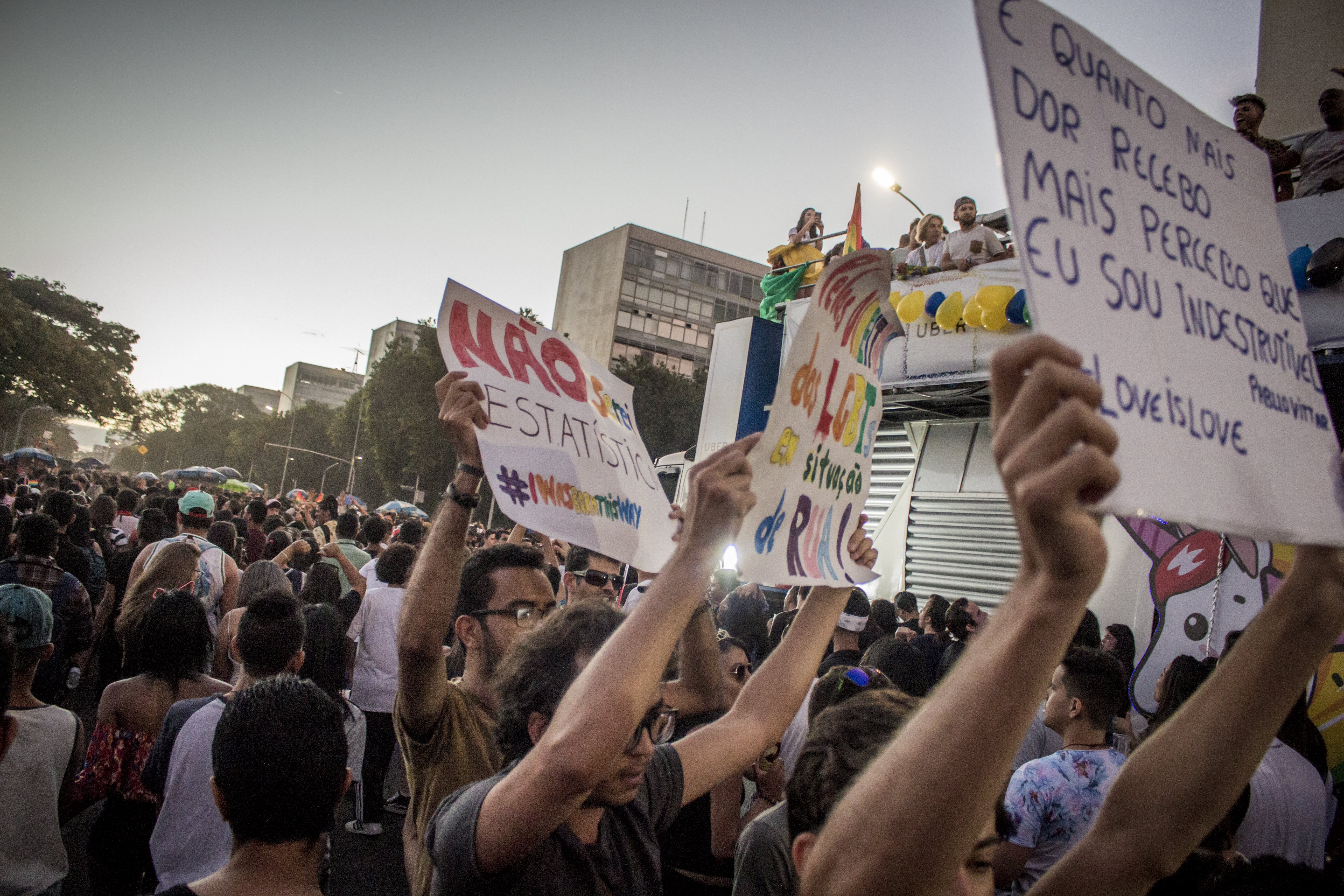 Foto: Mídia NINJA (CC-BY-SA 4.0)